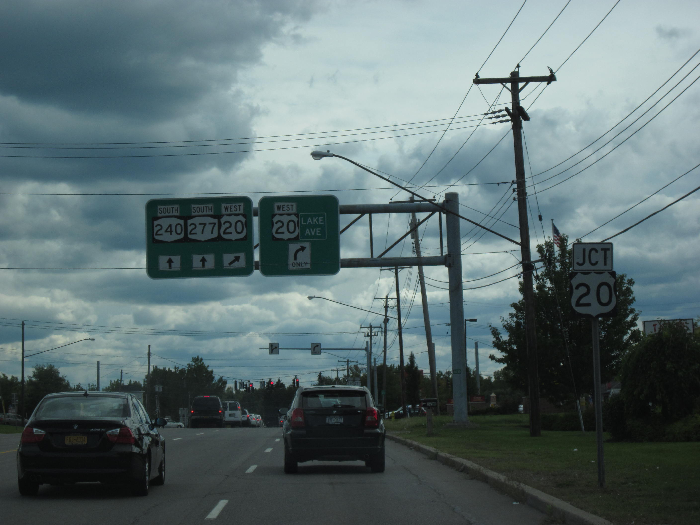 New York State Route 240 and New York State Route 277 southbound at the junction with US 20 and CR 200 in Orchard Park.